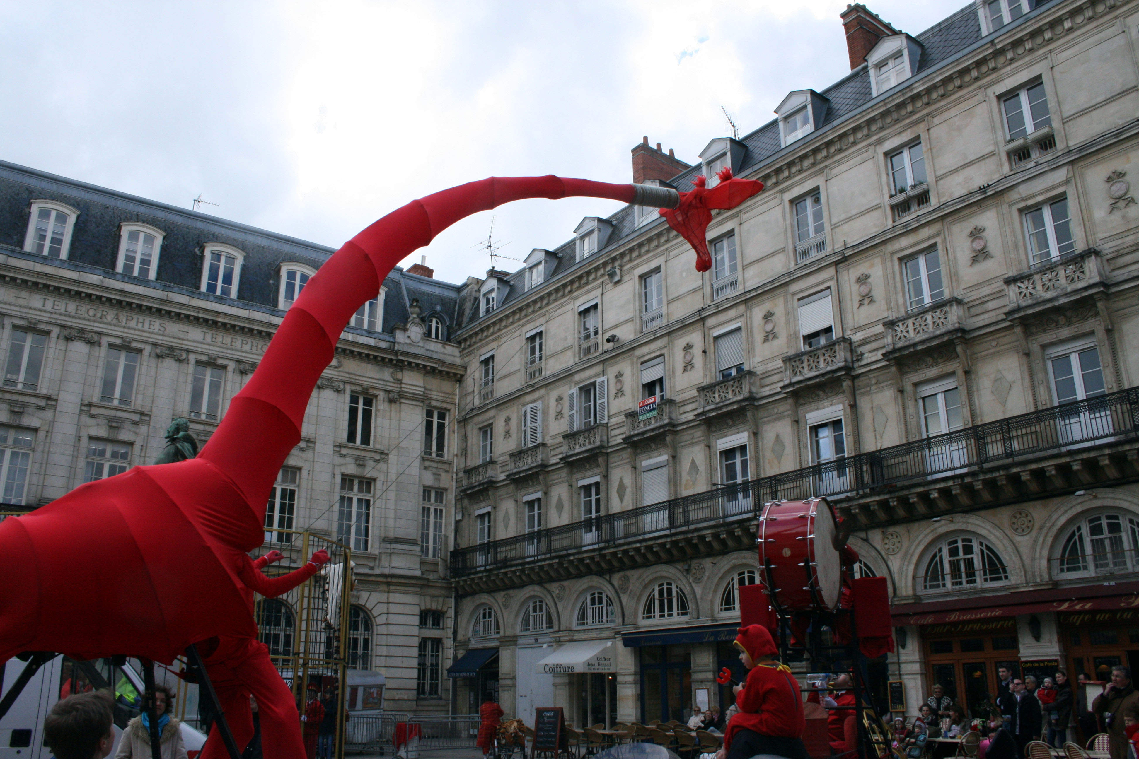 Description =Carnaval à La Rochelle Source =Photo taken by Remi Jouan Date =Mars 2007 Author =Remi Jouan